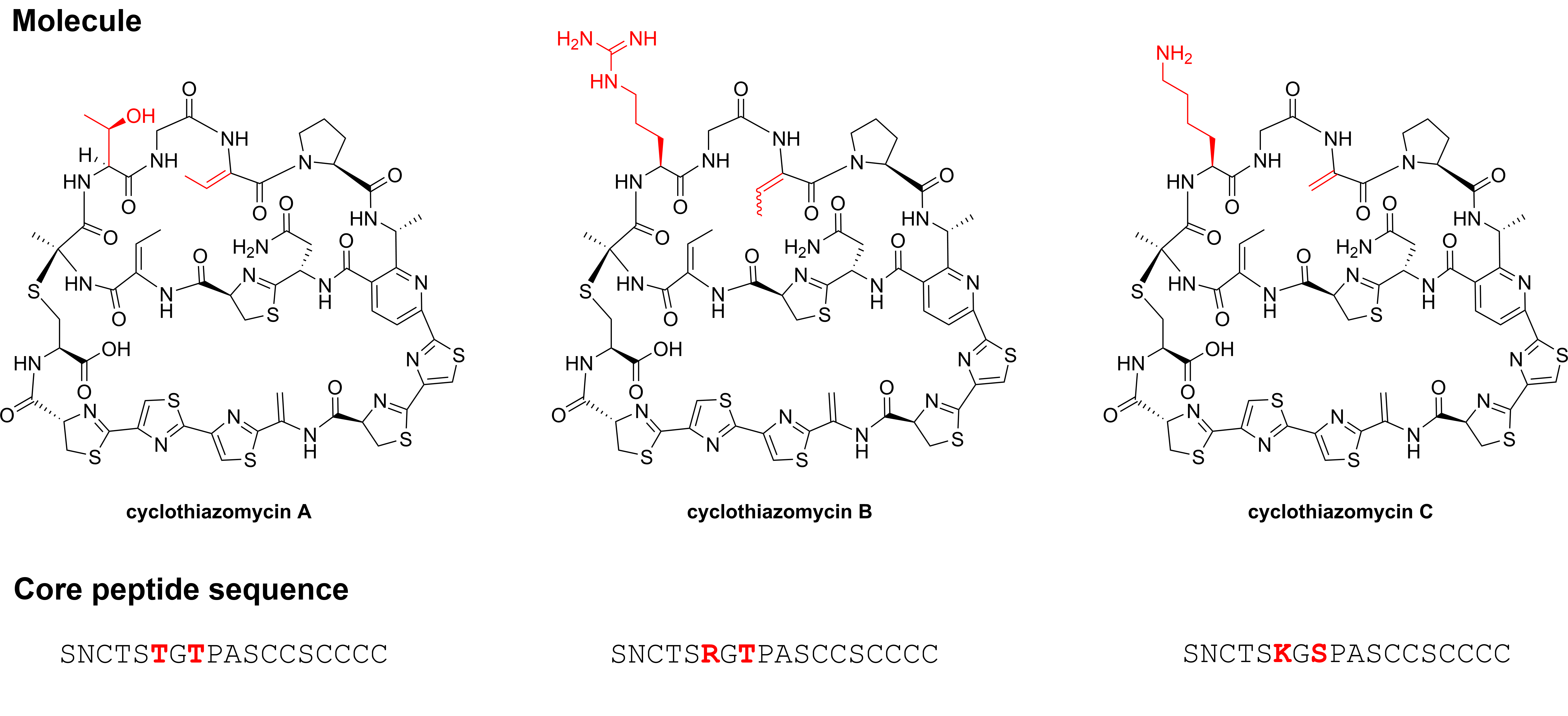 Structure of cyclothiazomycin family of compounds